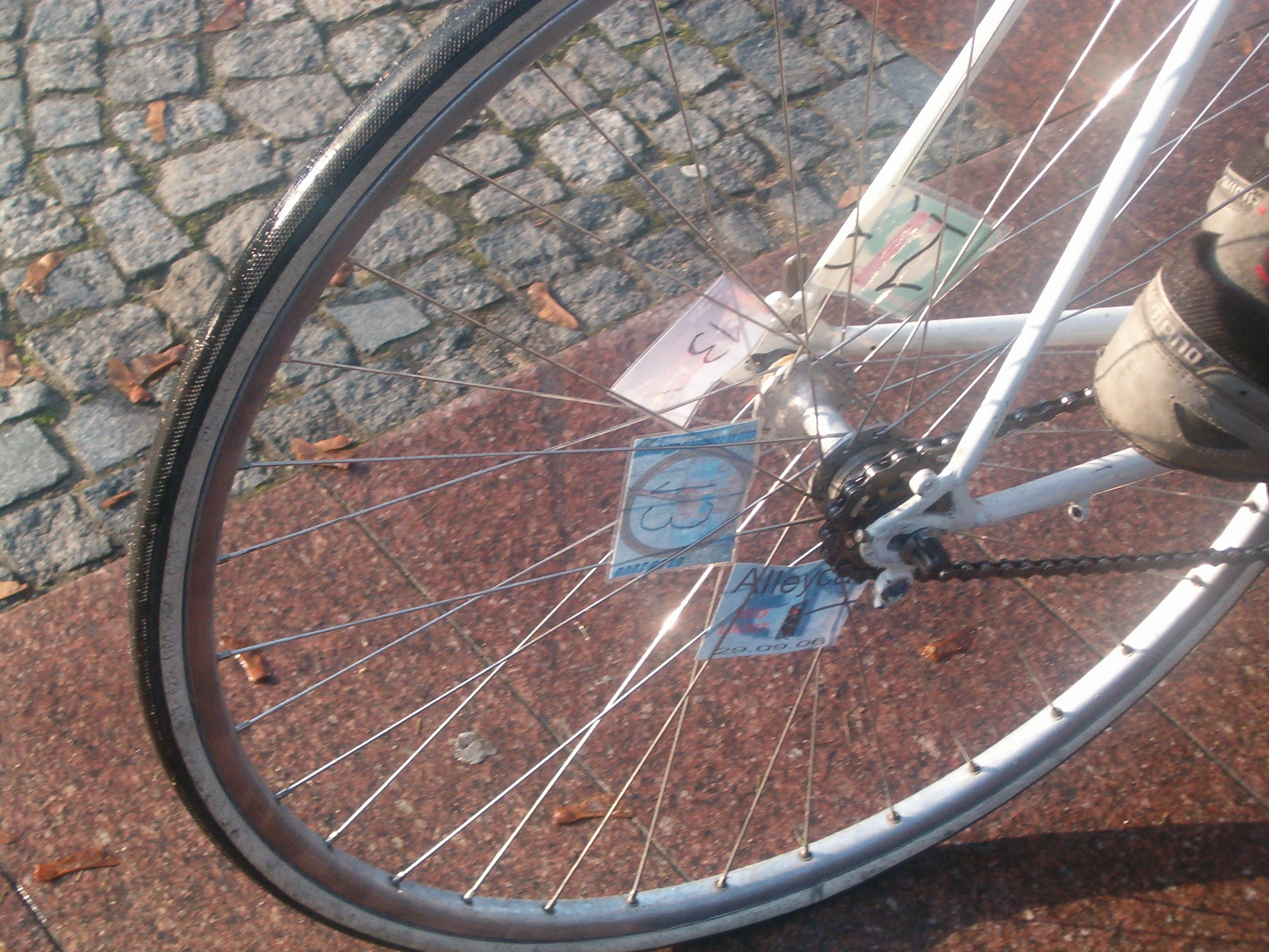 Freewheel hub converted to fixed geat hub, also spoke cards in spokes.